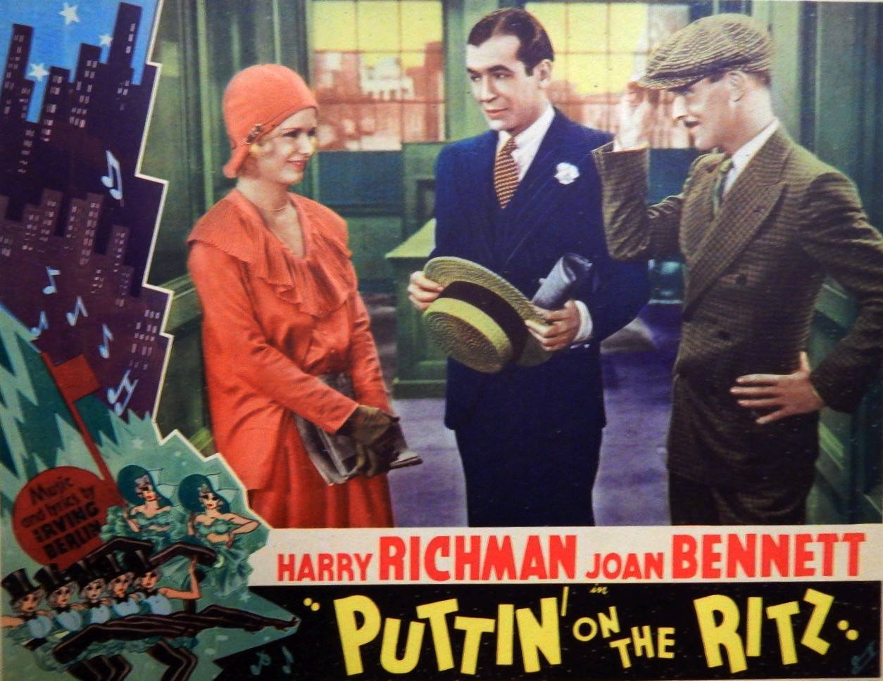 Lobby card for the 1930 film, Puttin' on the Ritz. The item has no copyright markings on it as can be seen in the links above and the uncropped original upload. At bottom right is Country of Origin USA.